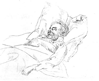 Beethoven on his deathbed